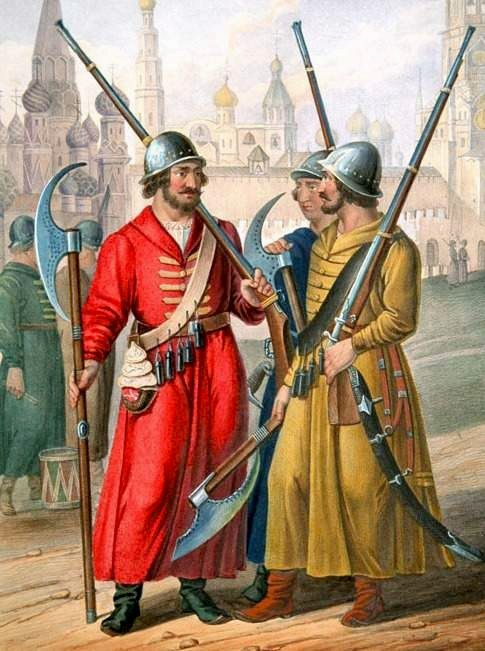 Streltsy guards in 1613